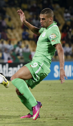 Algeria played Tunisia in the 2013 African Cup of Nations.